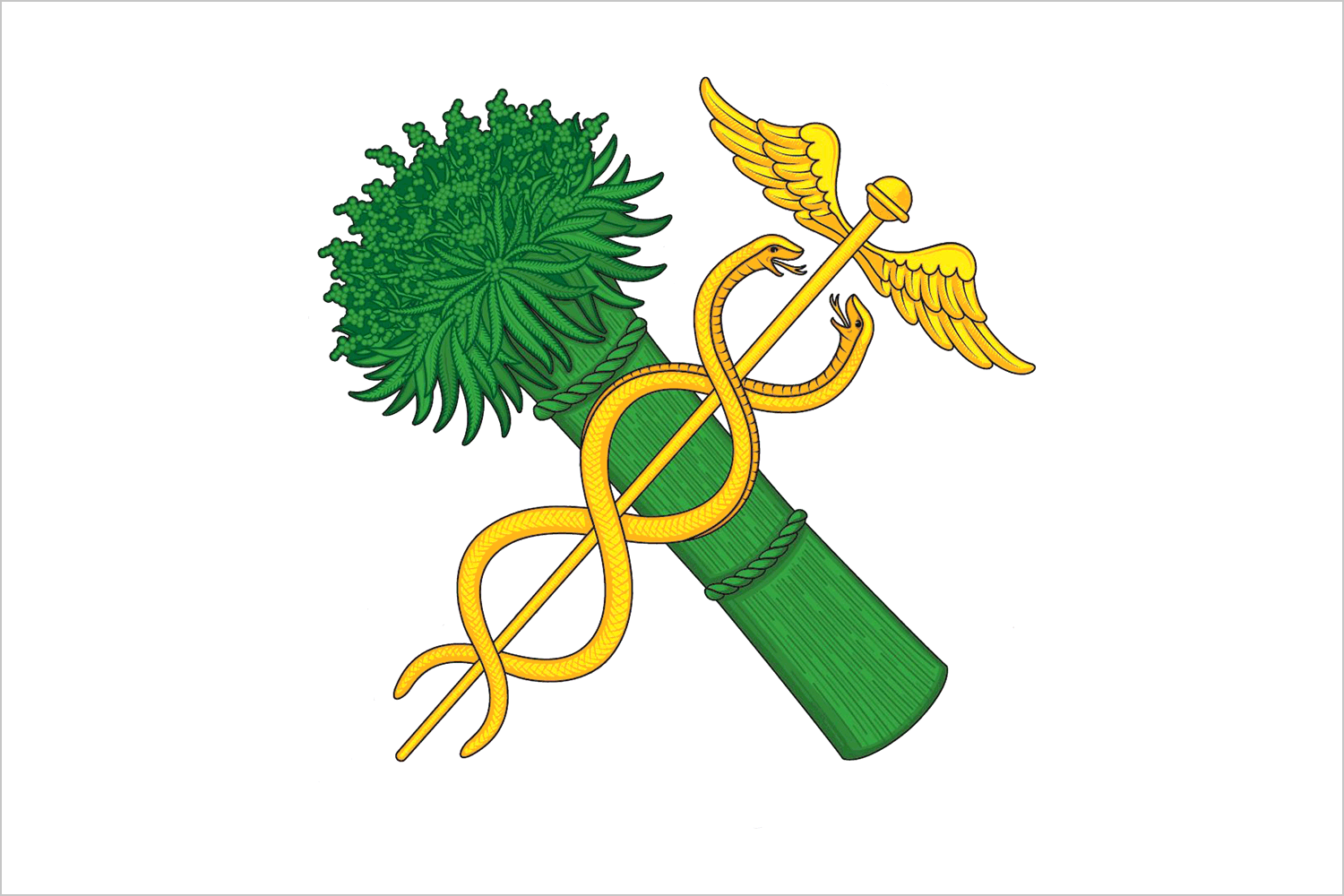 Flag of Novozybkov, Bryansk Region, Russia